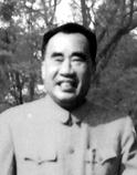 Zhu De, commander of the Chinese red army (later : People's Liberation Army)